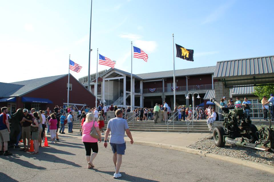 Skylands